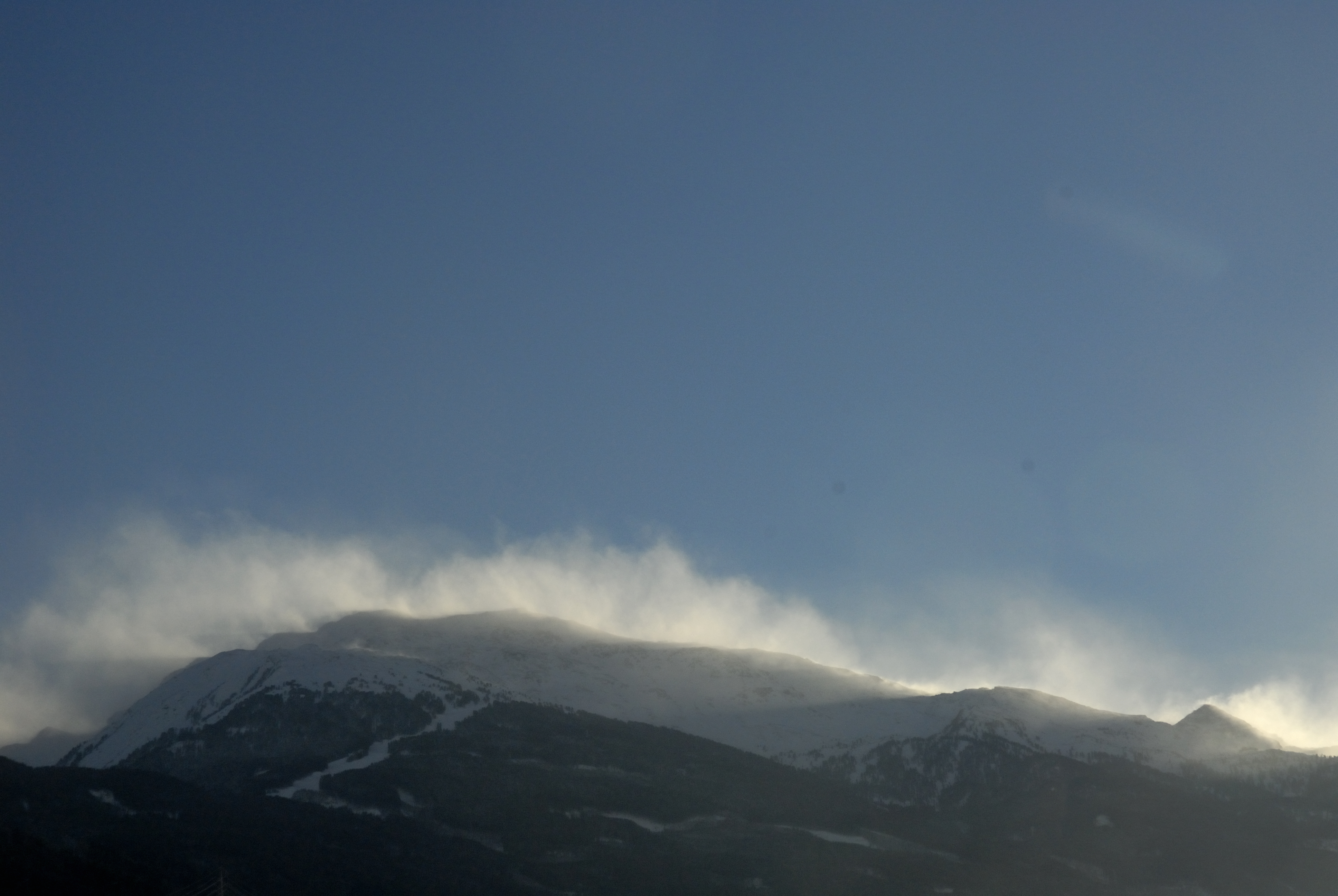 Snow storm on the Glungezer, Tuxer Alpen, Tyrol, Austria